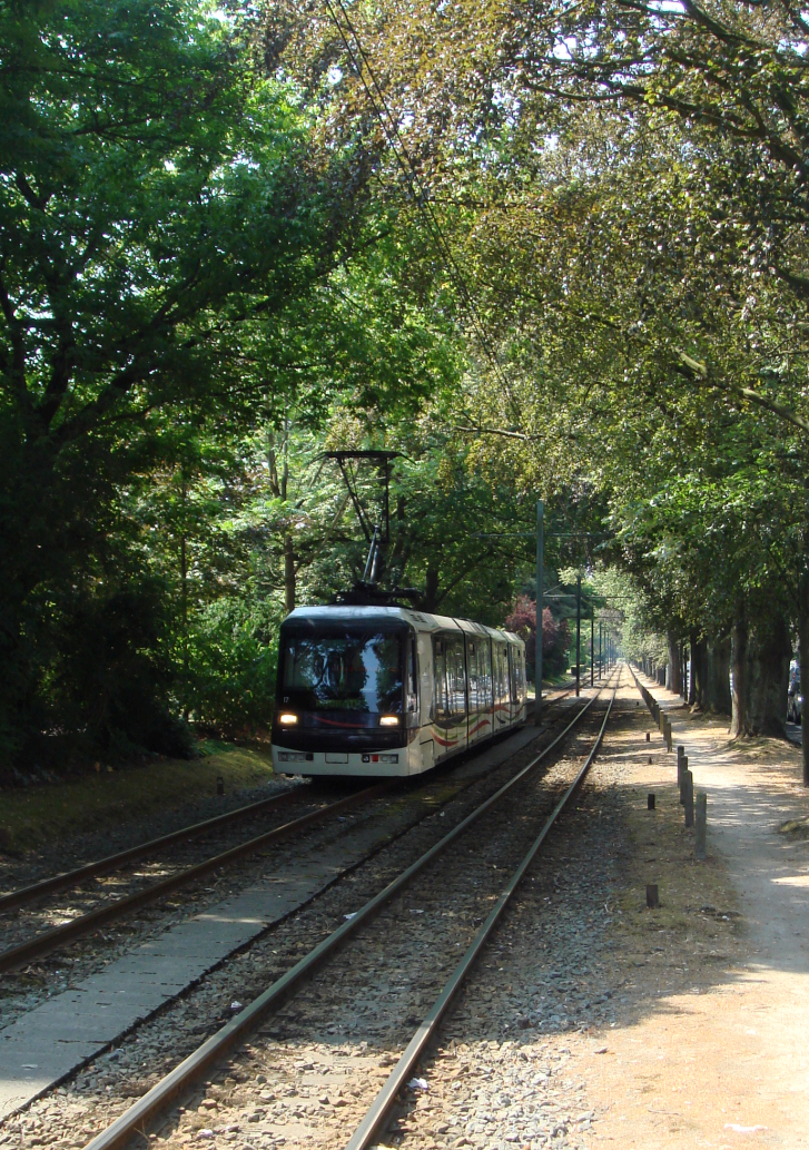 Edhec tramway from Lille Parc Barbieux station